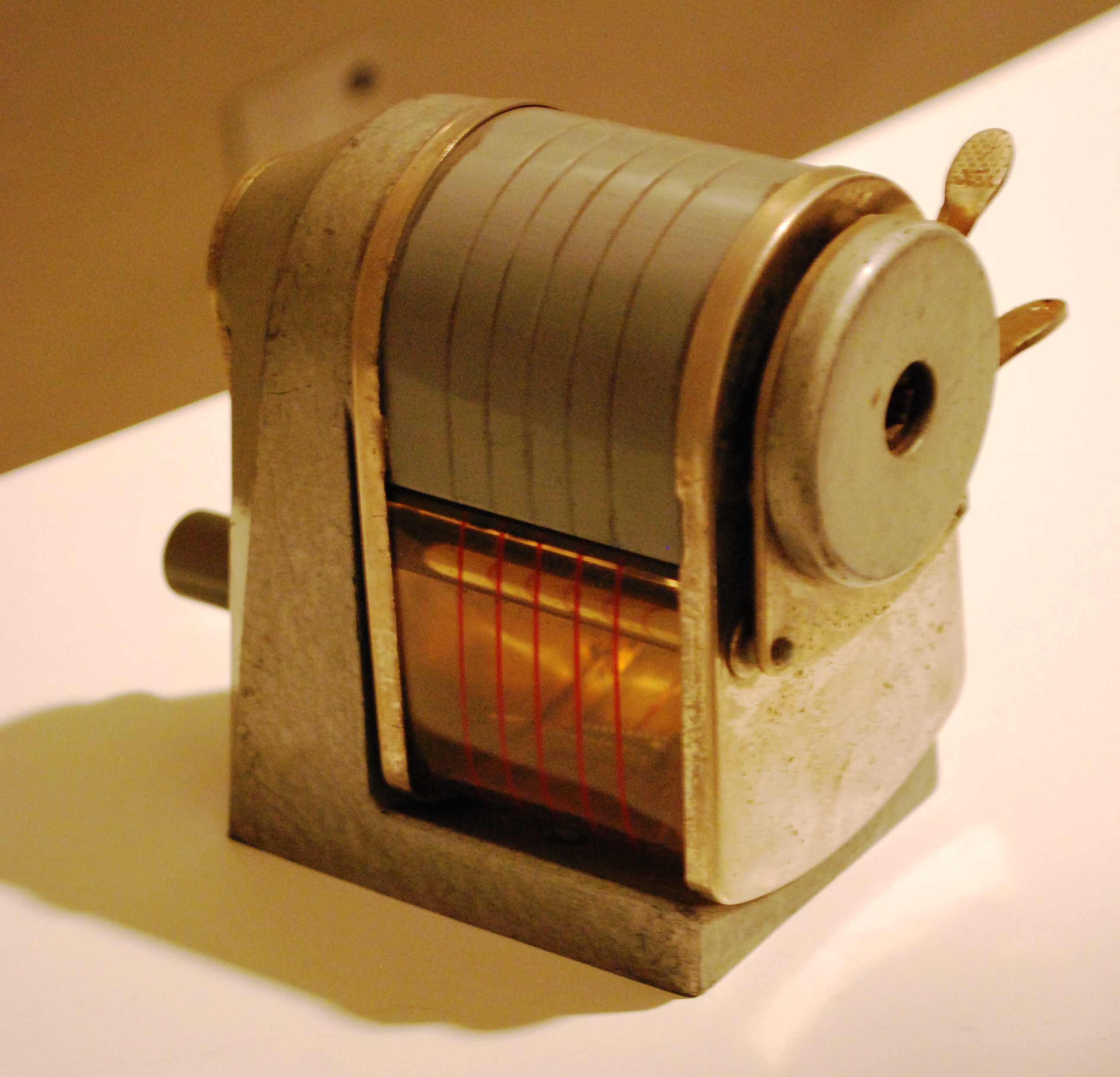 Pencil sharpener as part of the El MODO de Tassier exhibit at the Museo del Objeto del Objeto in Mexico City